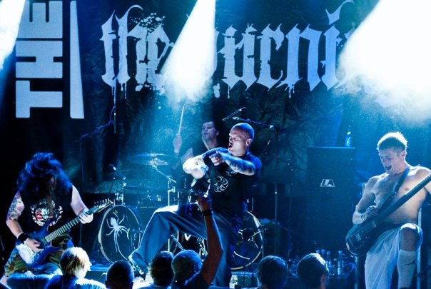 The Burning live at The Rock 2009